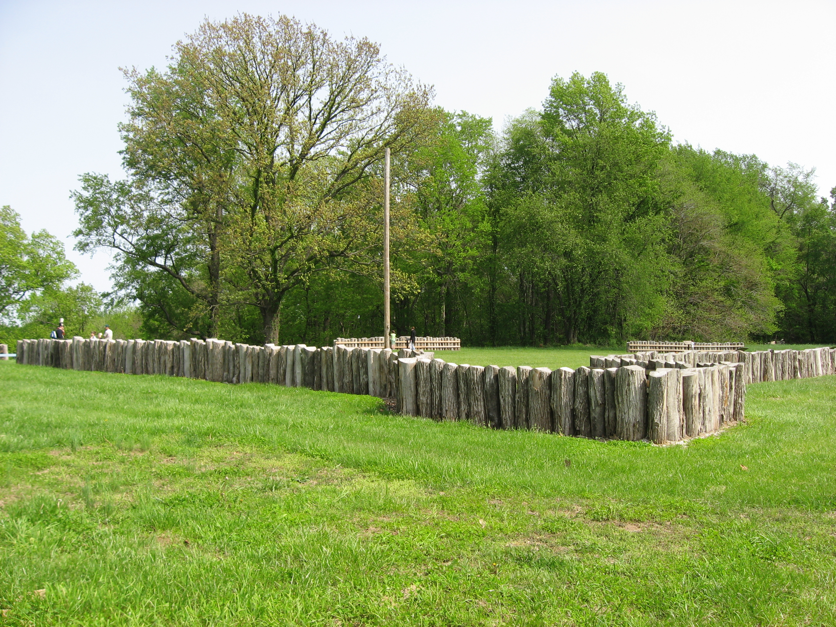 Reconstructed palisades at the site of Fort Knox II, located off Lower Fort Knox Road above the Wabash River north of Vincennes in Vincennes Township, Knox County, Indiana, United States. Established in 1803, the fort was the jumping-off point for the army that fought at the Battle of Tippecanoe. Today, the fort site is a park and archaeological site; it is listed on the National Register of Historic Places.